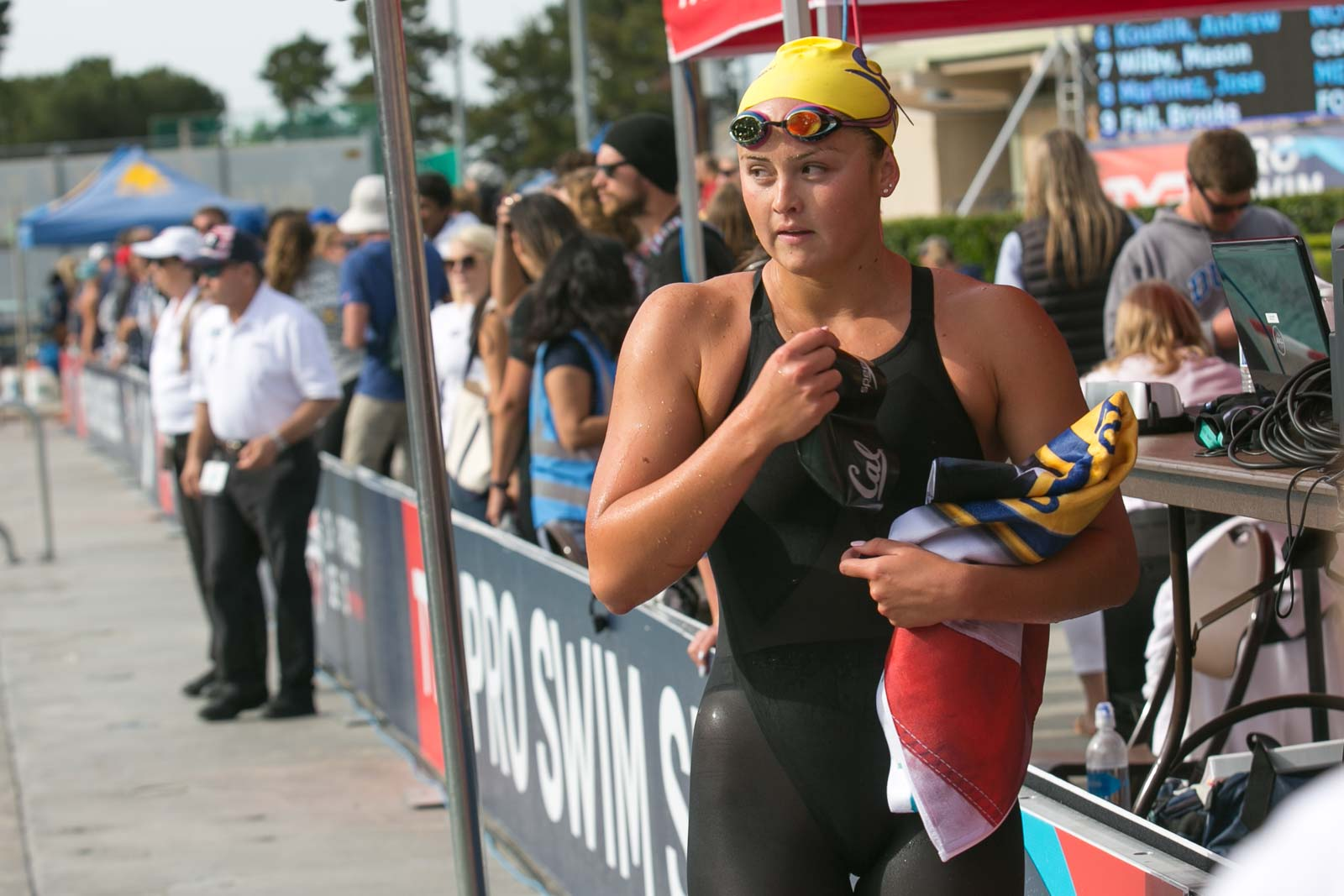 Kat McLaughlin after winning 200m fly